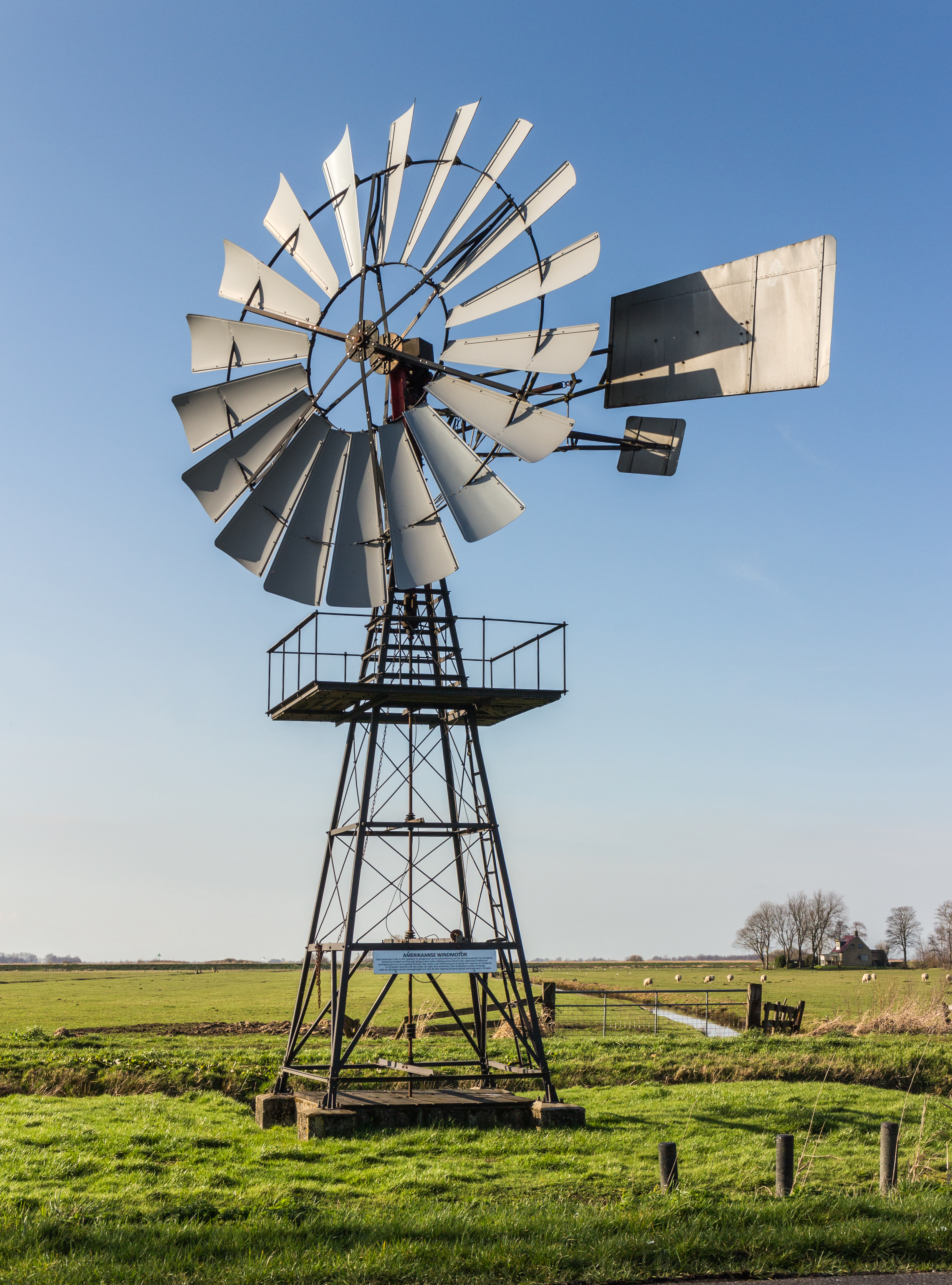 American-style wind pump that was originally used to drain one of the five polders of the Fries village of Goingarijp. The wind pumps became redundant when the five polders were merged into one that was serviced by a single pumping station at Terkaple. This particular wind pump was restored in 2007.